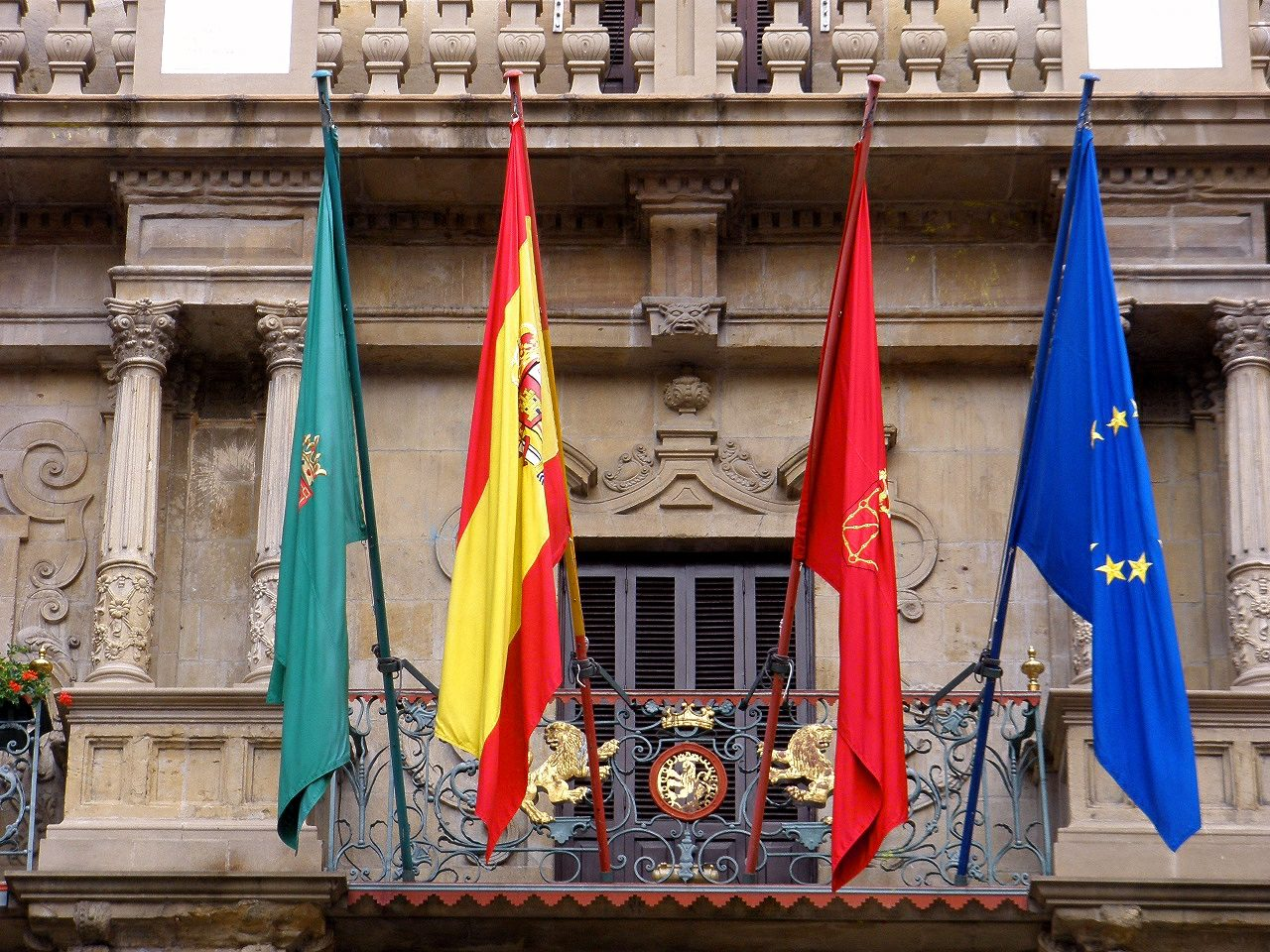 Balconada del Ayuntamiento de Pamplona